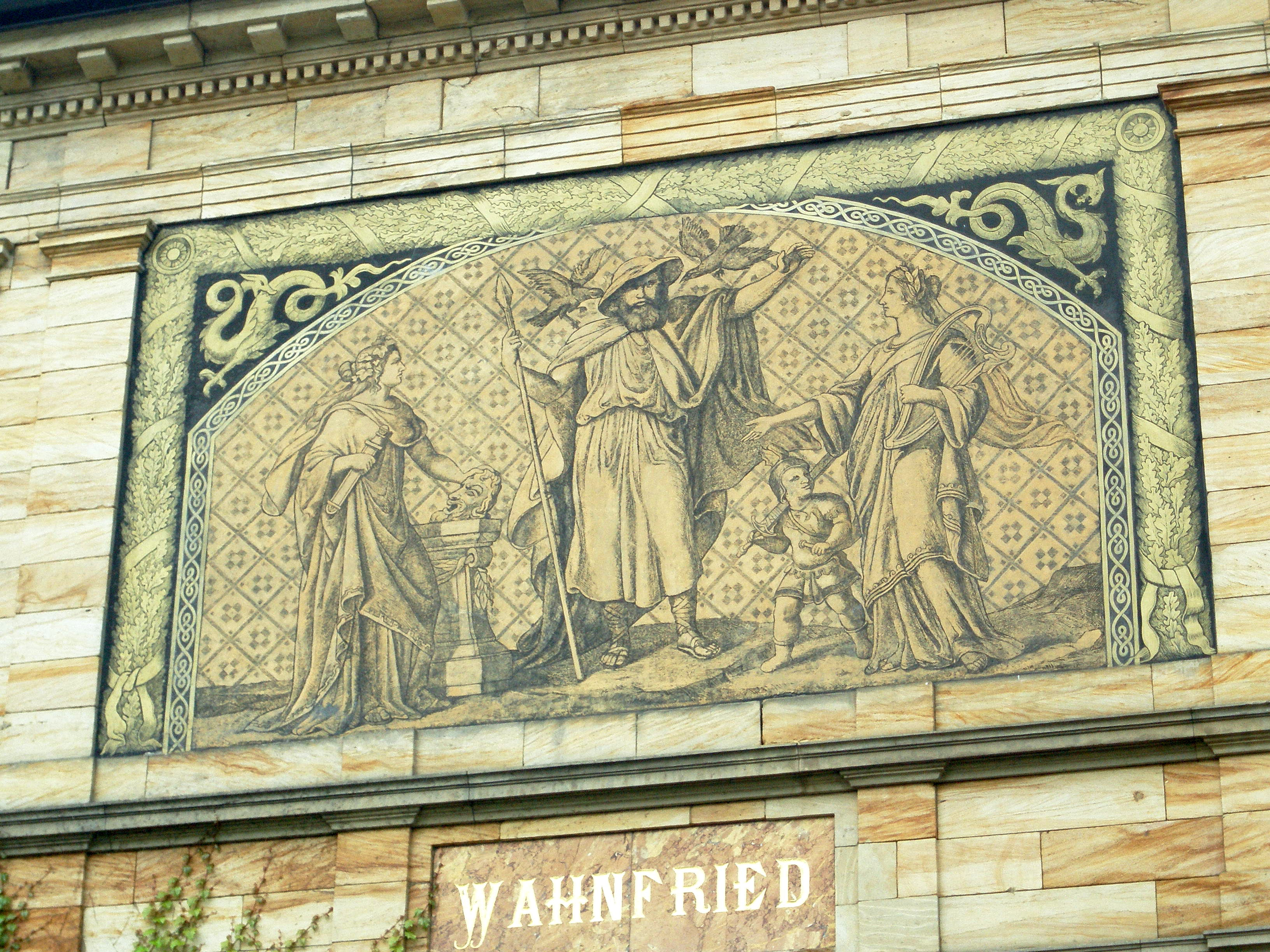 Scene from the Ring of the Nibelung showing Odin and other characters